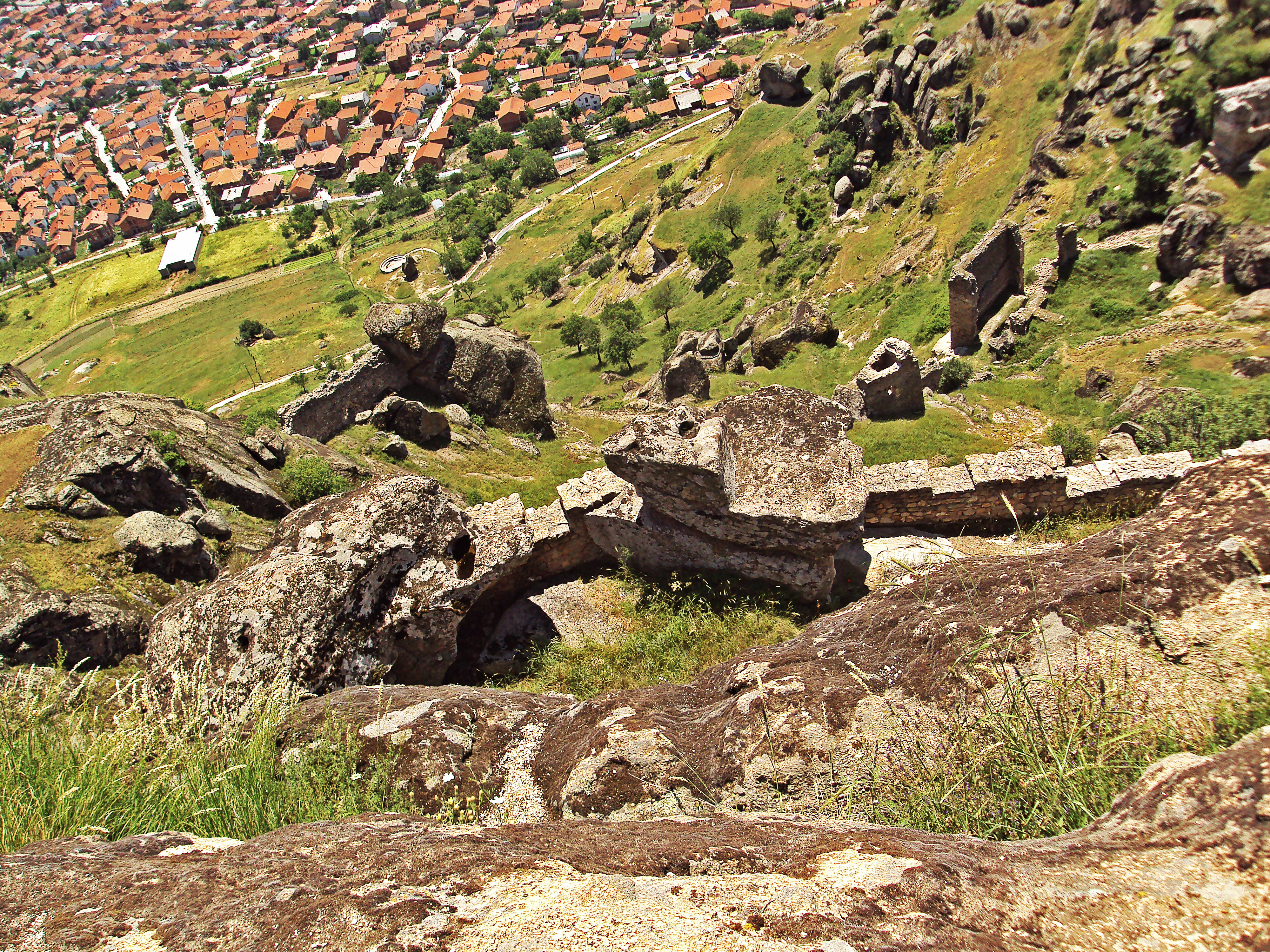 Stone walls